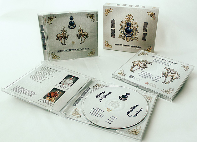 Nine full-length long songs on 3 audio CDs in MP3 format. Each CD contains a small book with narrative interpretation, brief introduction and full lyrics in Mongolian classic script, Cyrillic Mongolian and English languageМонгол: Монгол төрийн есөн айзам уртын дууг бүрэн эхээр дуулсан анхны бүтээл. Нийт 258 минут үргэлжлэх 9 дууг MP3 форматаар гурван СД-д багтааж, яруу найргийн бүрэн эх, утгын тайлал, дуулахуйн гаргалгааны хамт хавсаргажээ